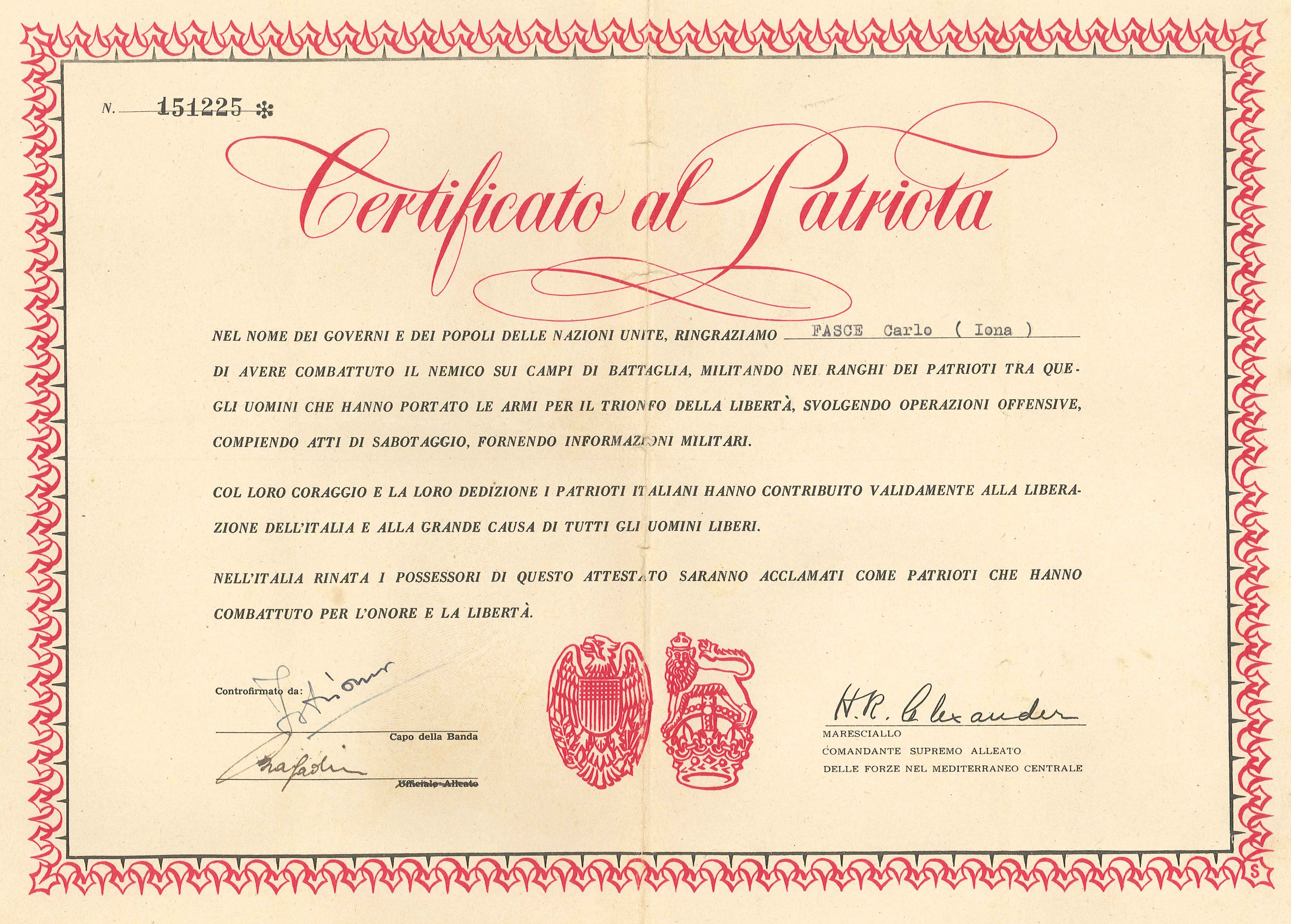 "Certificate of Patriot", given by H.R.Alexander, Field-Marshal, Supreme Allied Commander, Mediterranean Theatre, to the partisans who had taken part in the Italian Resistance